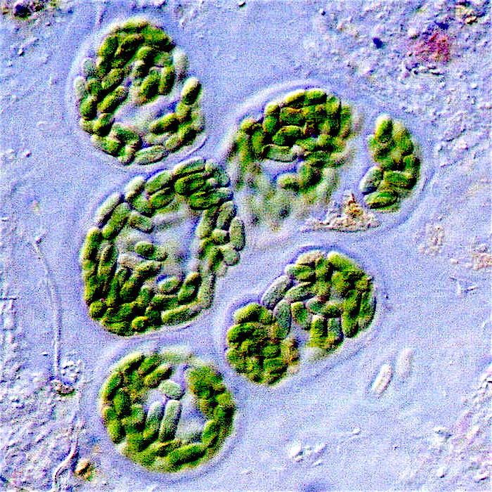 Unicellular bacteria from a microbial mat in Guerrero Negro, Baja California, Mexico. Light microscope view. (